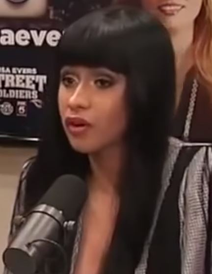 Cropped video still of Cardi B speaking to James David Manning on Street Soldiers with Lisa Evers in January 2016